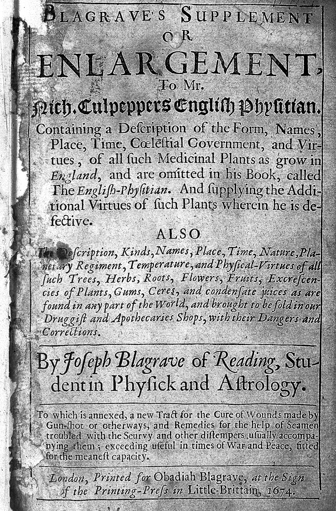 Title page. Rare Books Keywords: Joseph Blagrave; Nich. Culpepper